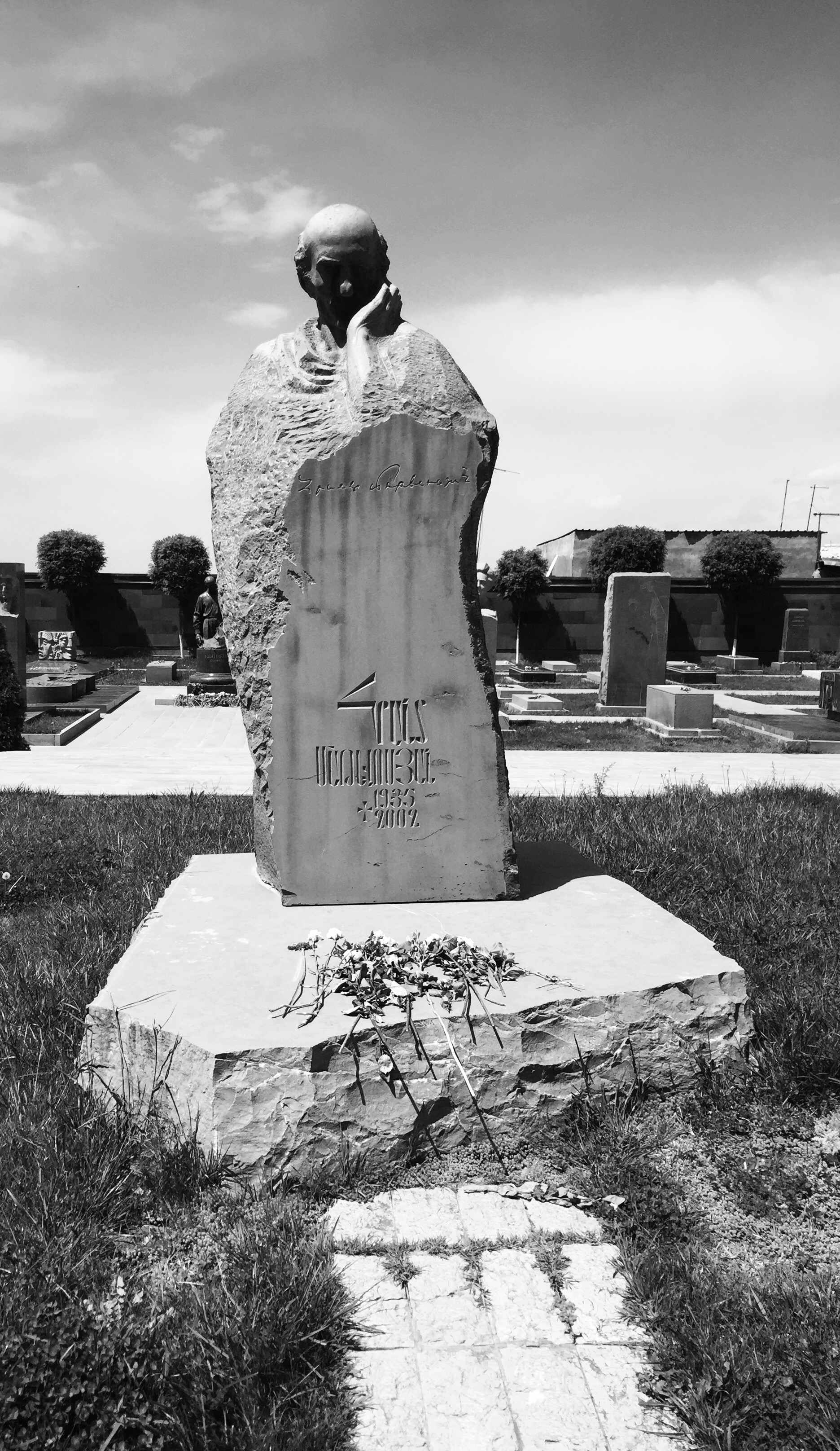 Hrant Matevosyan's tomb at Yerevan's Komitas Pantheon (Photo: Rupen Janbazian)